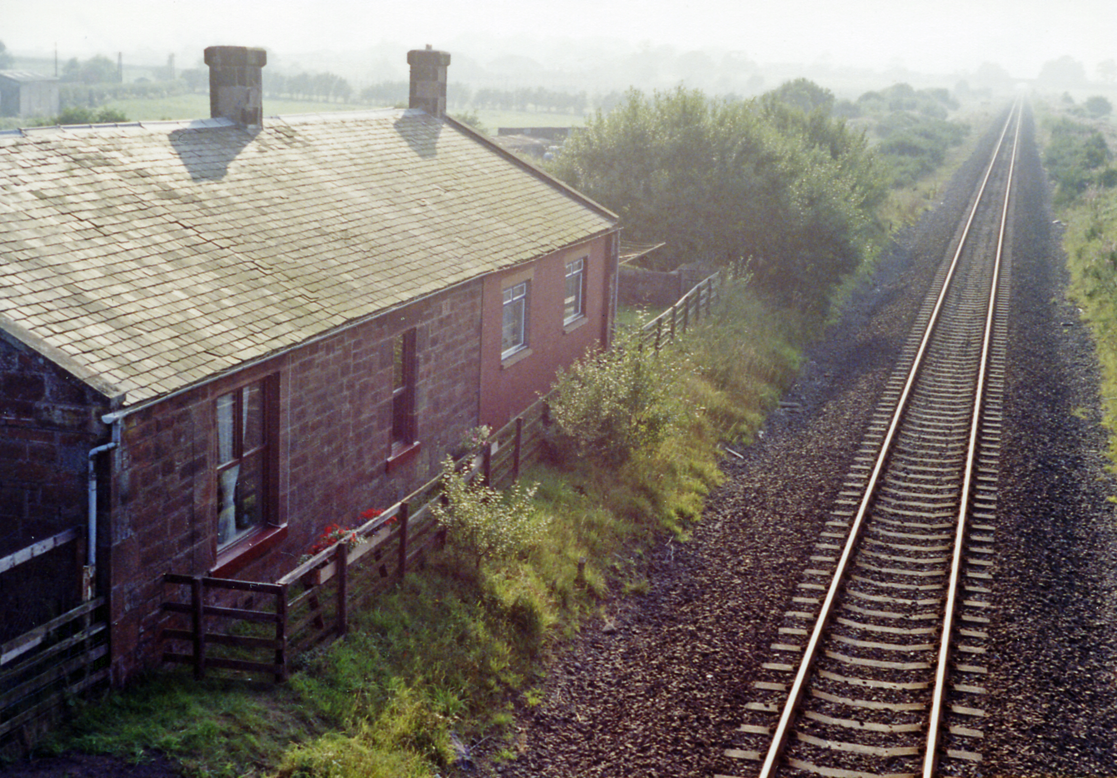 Eastriggs station site/remains, 1991. View westward, towards Dumfries etc.: ex-G&SWR Carlisle - Dumfries/Stranraer (formerly) - Kilmarnock - Glasgow main line. The station ('Dornock' until 5/23)was closed from 6/12/65 and the line reduced to single-track but recently double-track has been restored